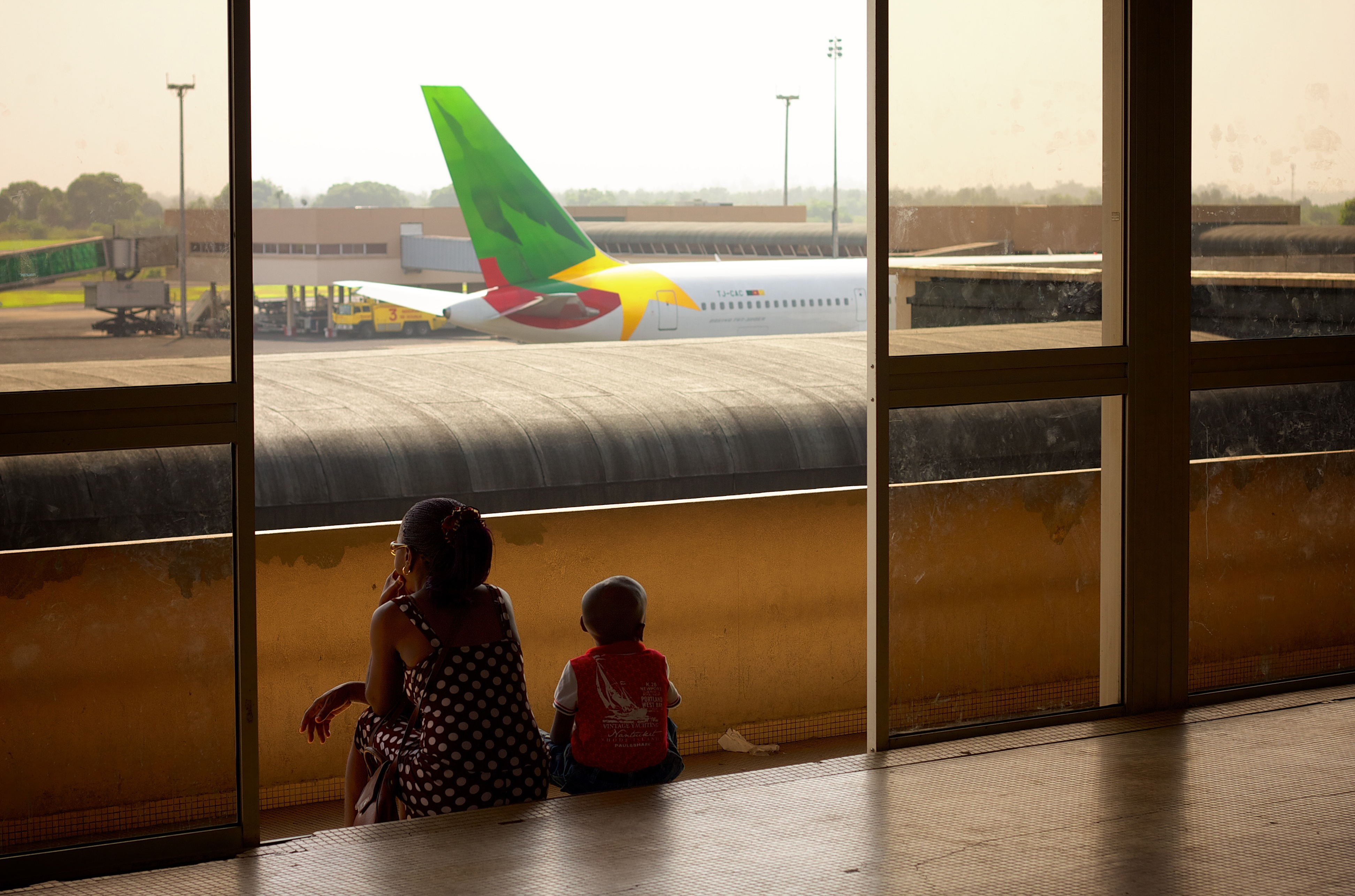 Douala Airport, 2013